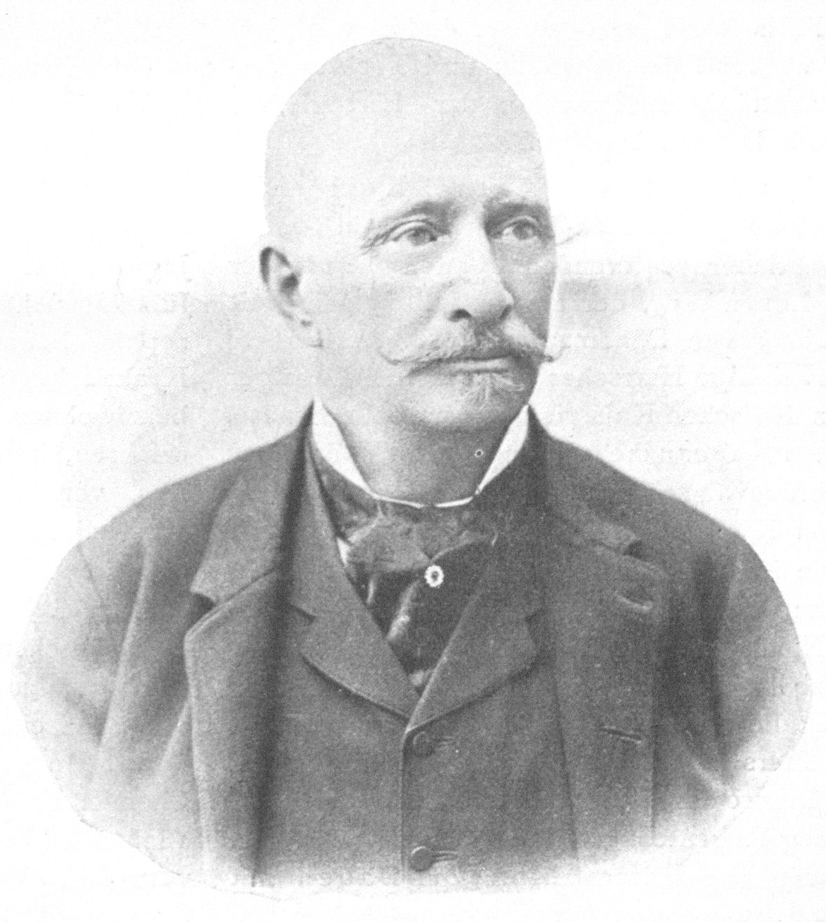 Anton Dreher junior (1849–1921), Austrian brewery industrialist.